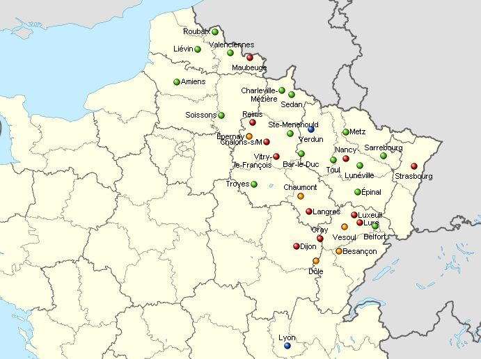 Location of the churches which belonged to the Evangelical Missionary Federation, as indicated by sociologist Laurent Amiotte-Suchet in Pratiques pentecôtistes et dévotion mariale : Analyse comparée des modes de mise en présence du divin (2006), pp. 707, 708, 712